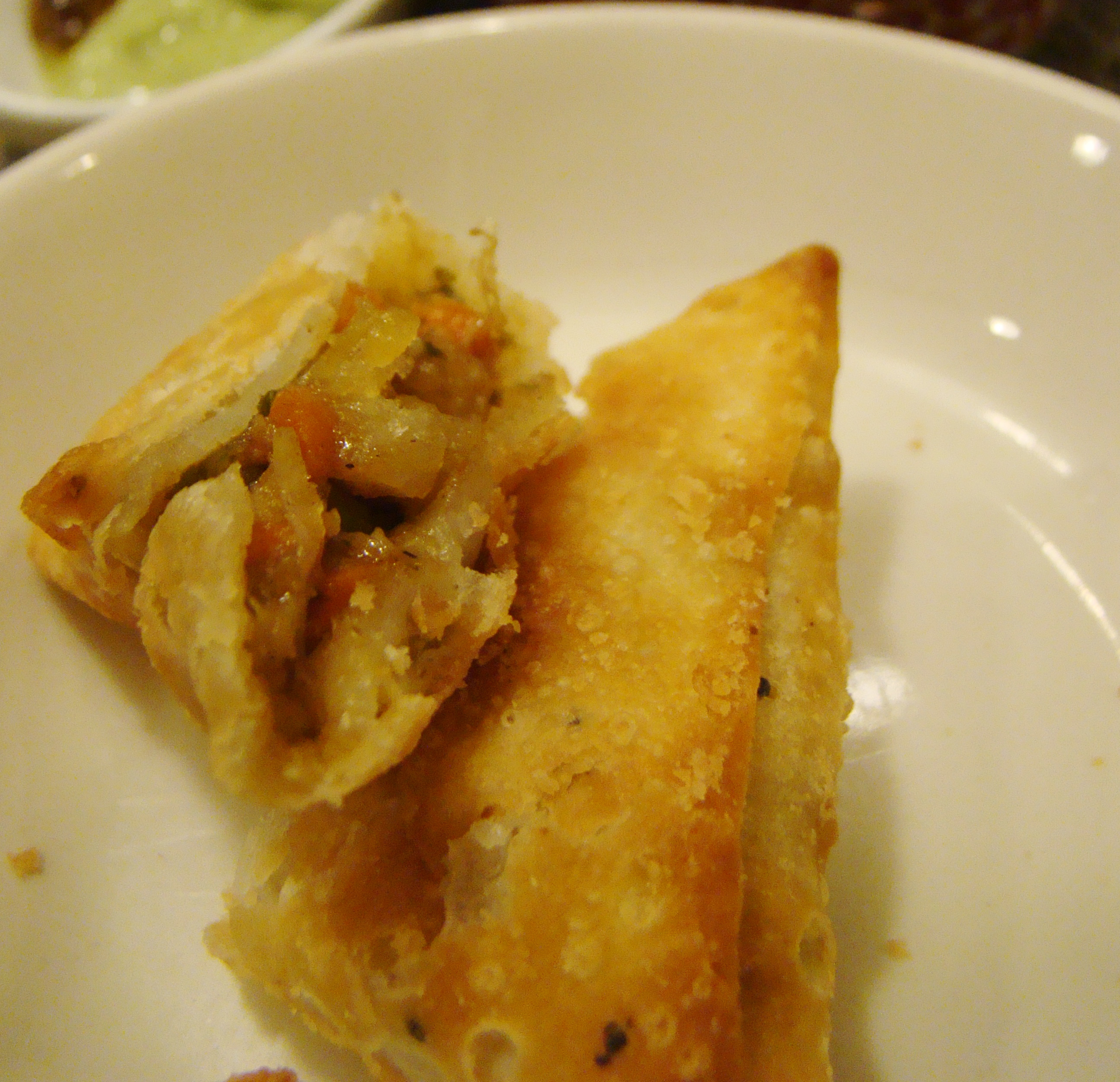 Yummy Inside....served with a choice of tamarind chutney or wasabi mustard - delectable.